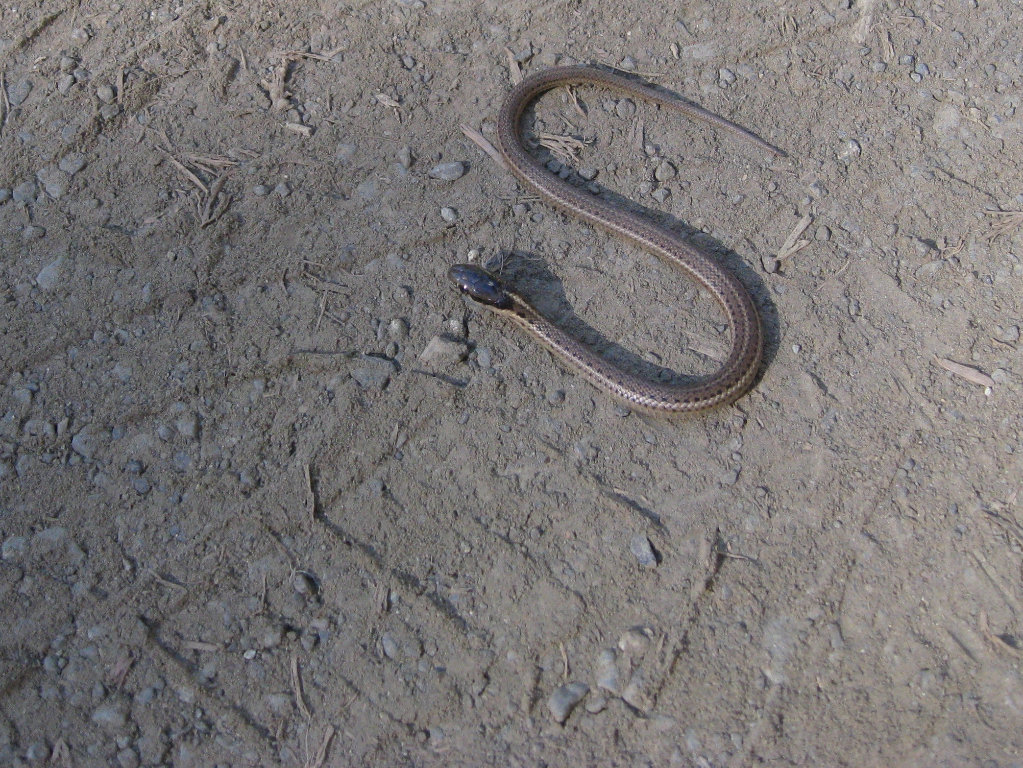 Thamnophis ordinoides. We saw this snake at the Mount Townsend trail head, on the Olympic Peninsula, Washington, USA.